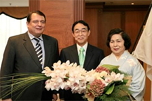 Jiří Paroubek, Leader of the Czech Social Democratic Party, attended the Reception to Celebrate the Emperor's Birthday with Hideaki Kumazawa, Ambassador to the Czech Republic, and Hideaki's spouse at Hilton Prague in Prague City on December 4, 2007.